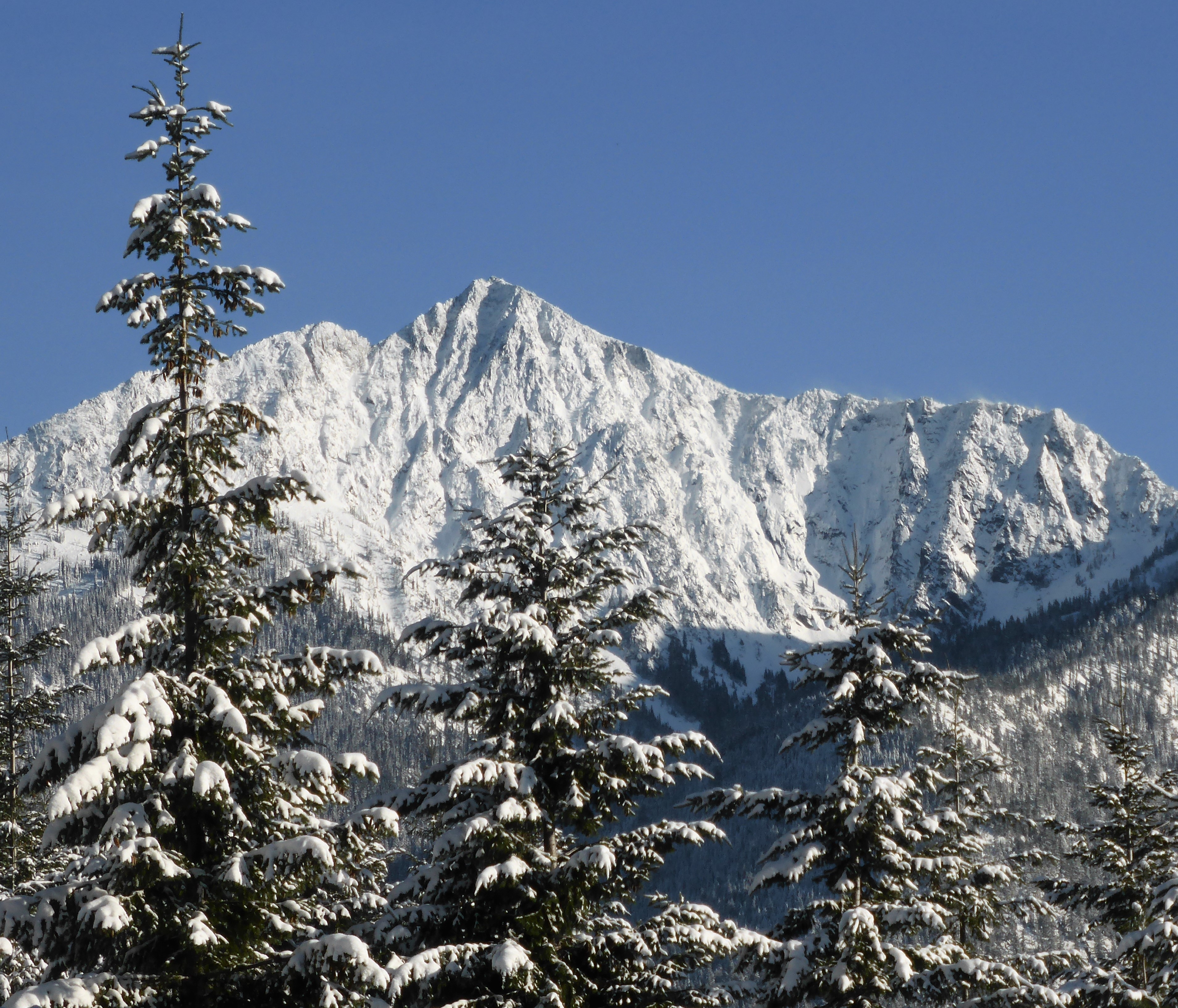 Mount Howard, Chelan County, Washington